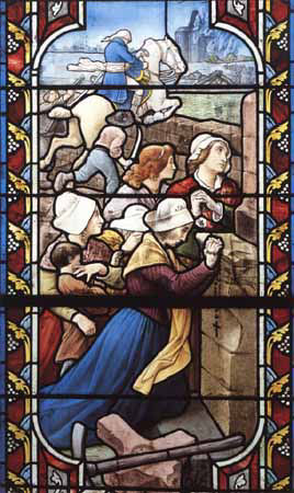 Stained glass window of the church in Vihiers, representing the flight of republican general Santerre in front of the attack of the royalist armed forces.